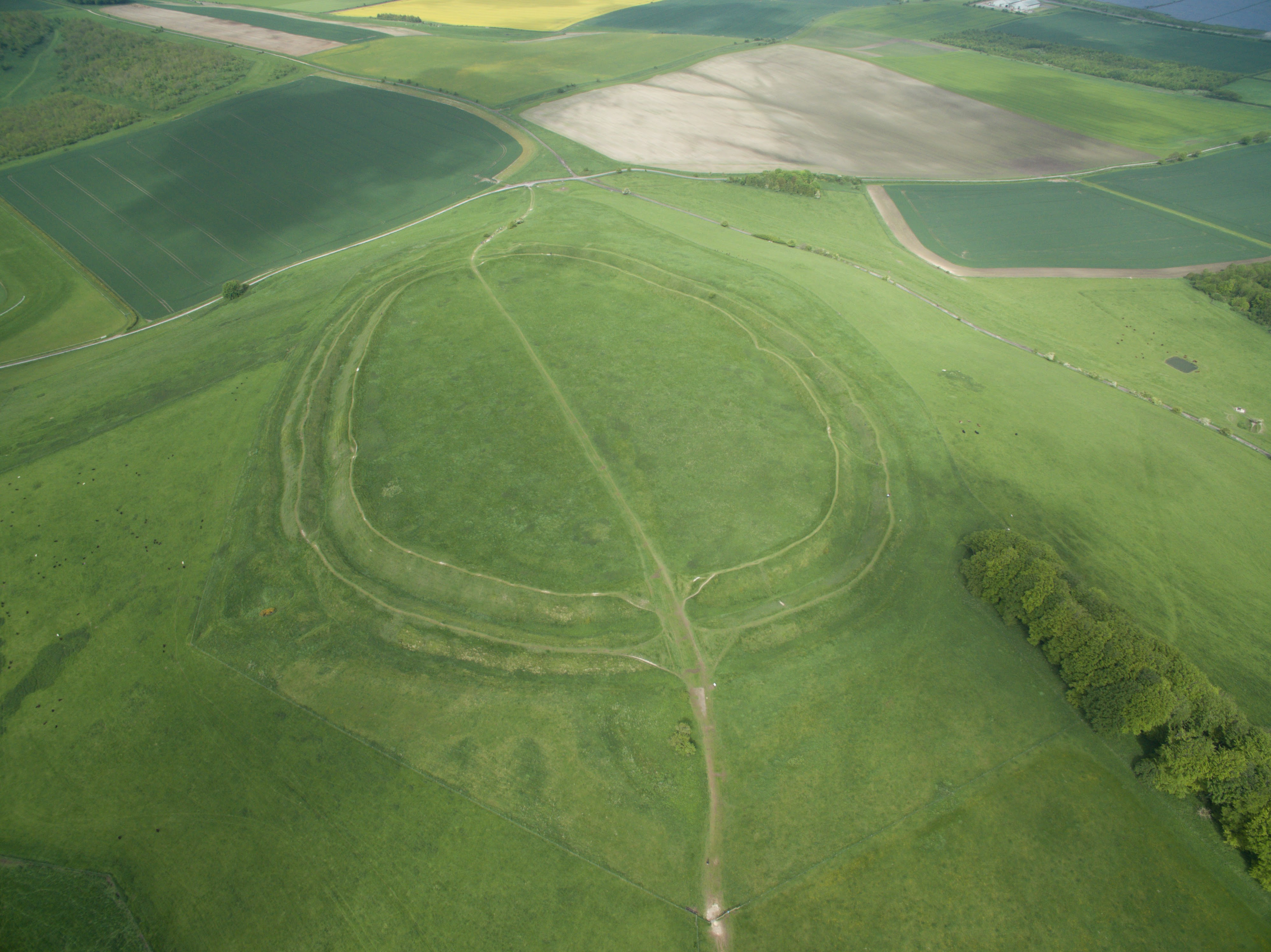 This image was shot from my DJI Phamtom 3 Pro